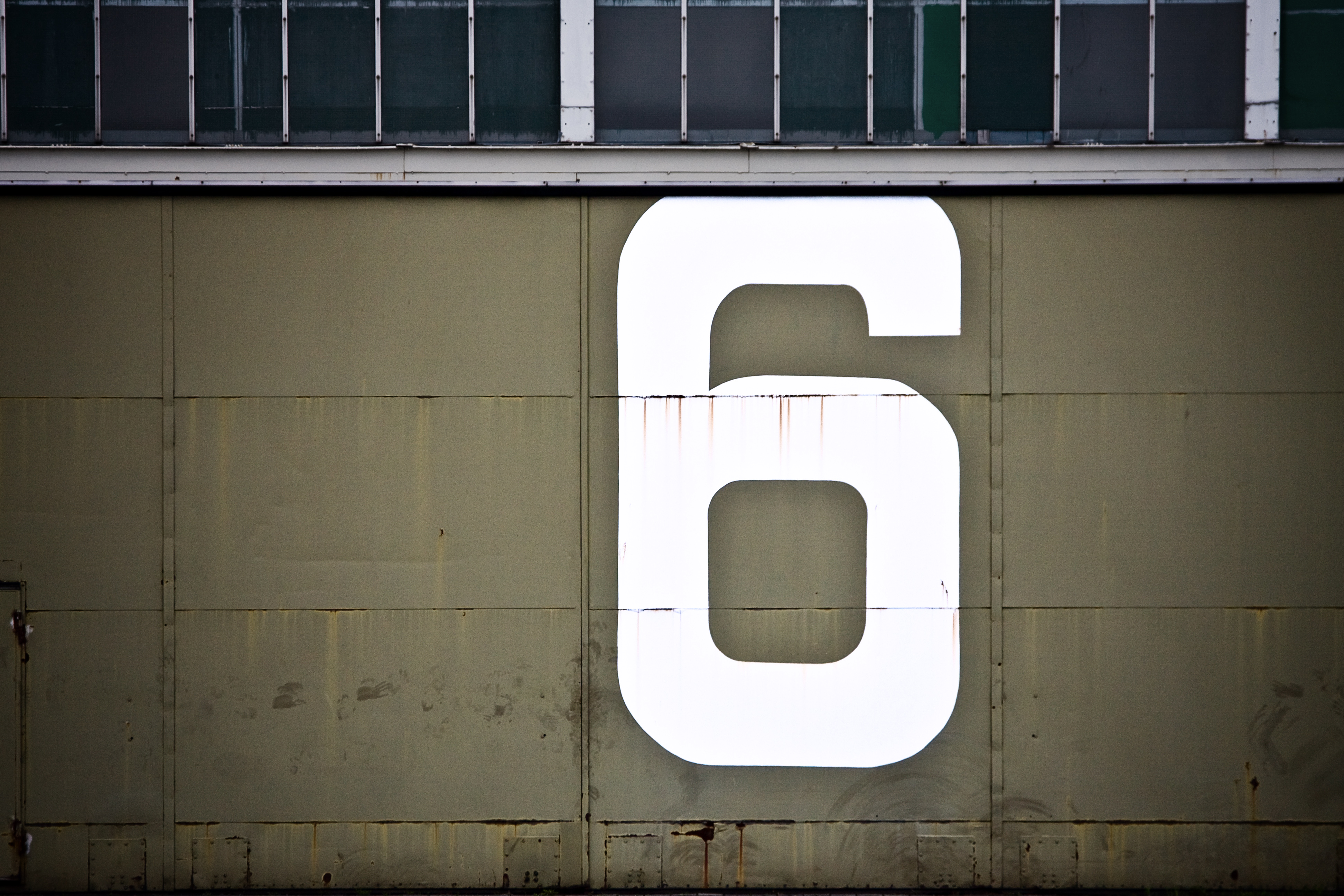 A hangar with a number six.